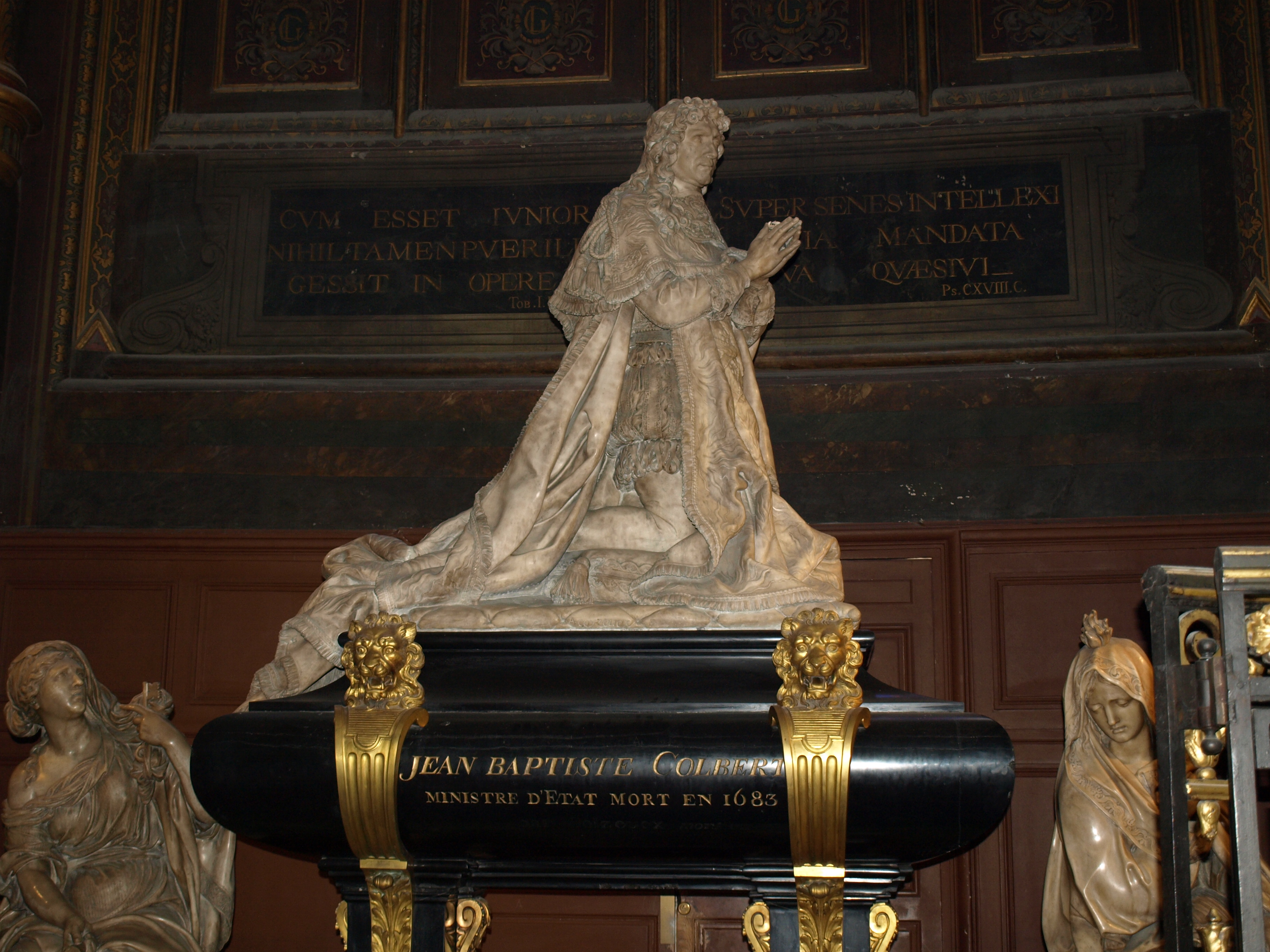 Tombe of French statesman Jean-Baptiste Colbert in St. Eustache church, Paris (France)